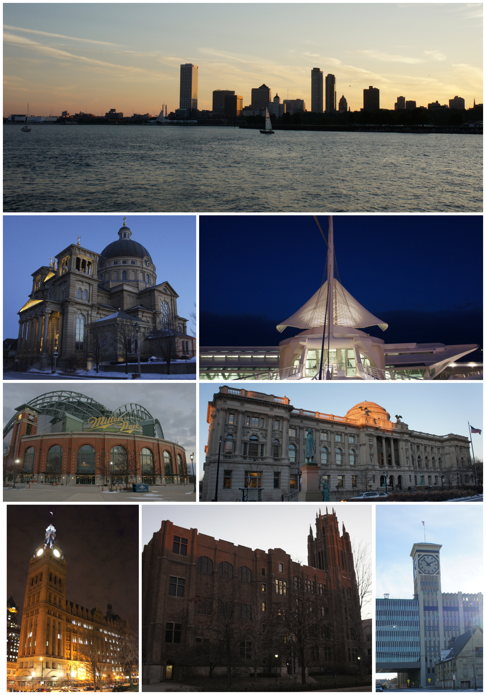 A collage of images of landmarks in Milwaukee, Wisconsin, taken in 2013 and 2014. Clockwise, from top: Milwaukee skyline, Milwaukee Art Museum, Milwaukee Central Library, Allen-Bradley Clock Tower, Marquette Hall at Marquette University, Miller Park, and the Basilica of St. Josaphat.